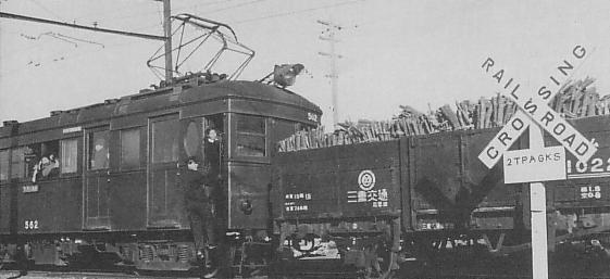 Mie-Kotsu Shima Line (present-day "Kintetsu Shima Line")